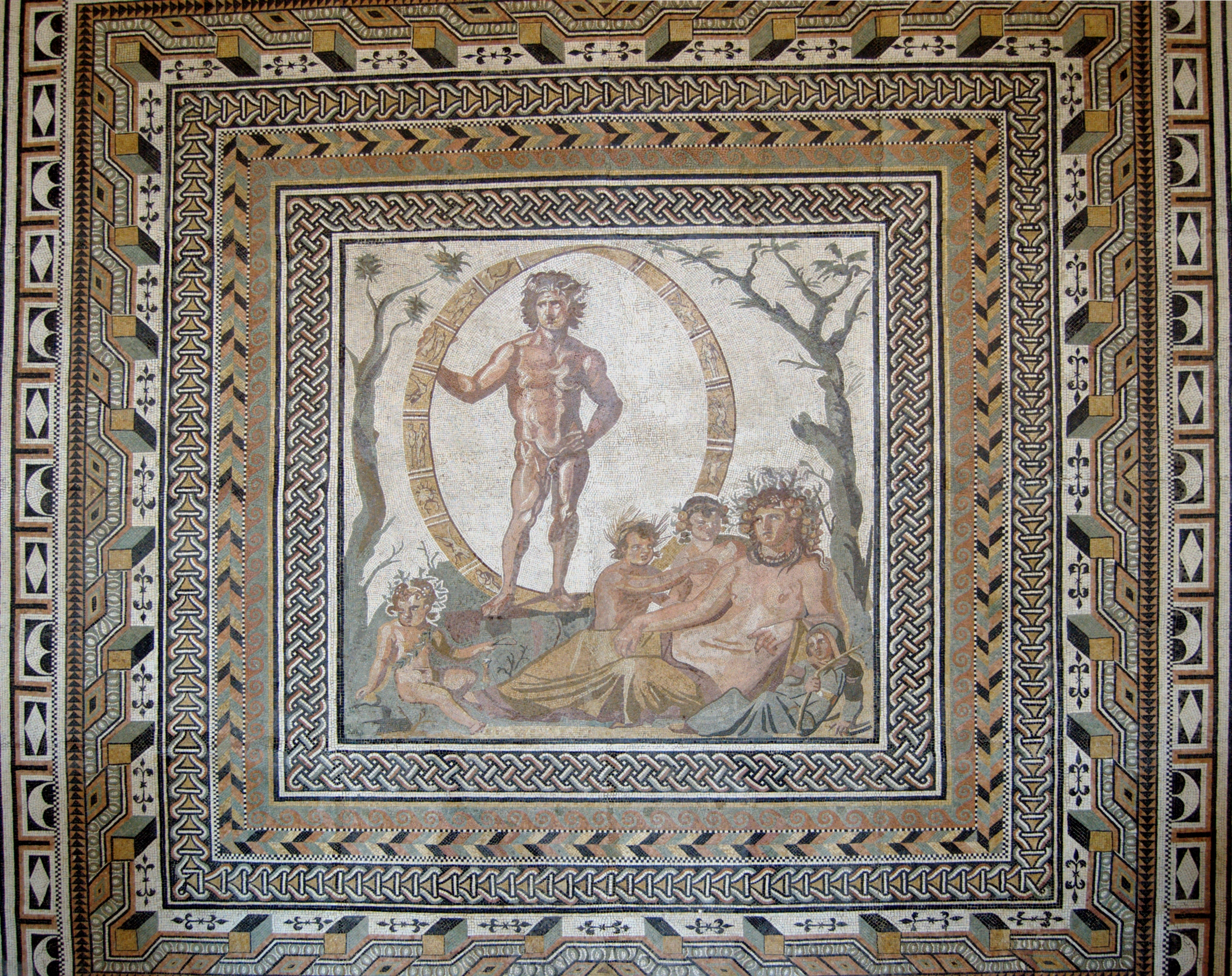 Central part of a great floor mosaic from a Roman villa in Sentinum (today Sassoferrato in Marche), ca. 200–250 CE. Aion, god of eternity, in a celestial sphere decorated with zodiacal signs, between a green and a dismantled tree (summer and winter). Before him is the mother-earth Tellus (Roman Gaia) with four children, the four seasons personified (?).